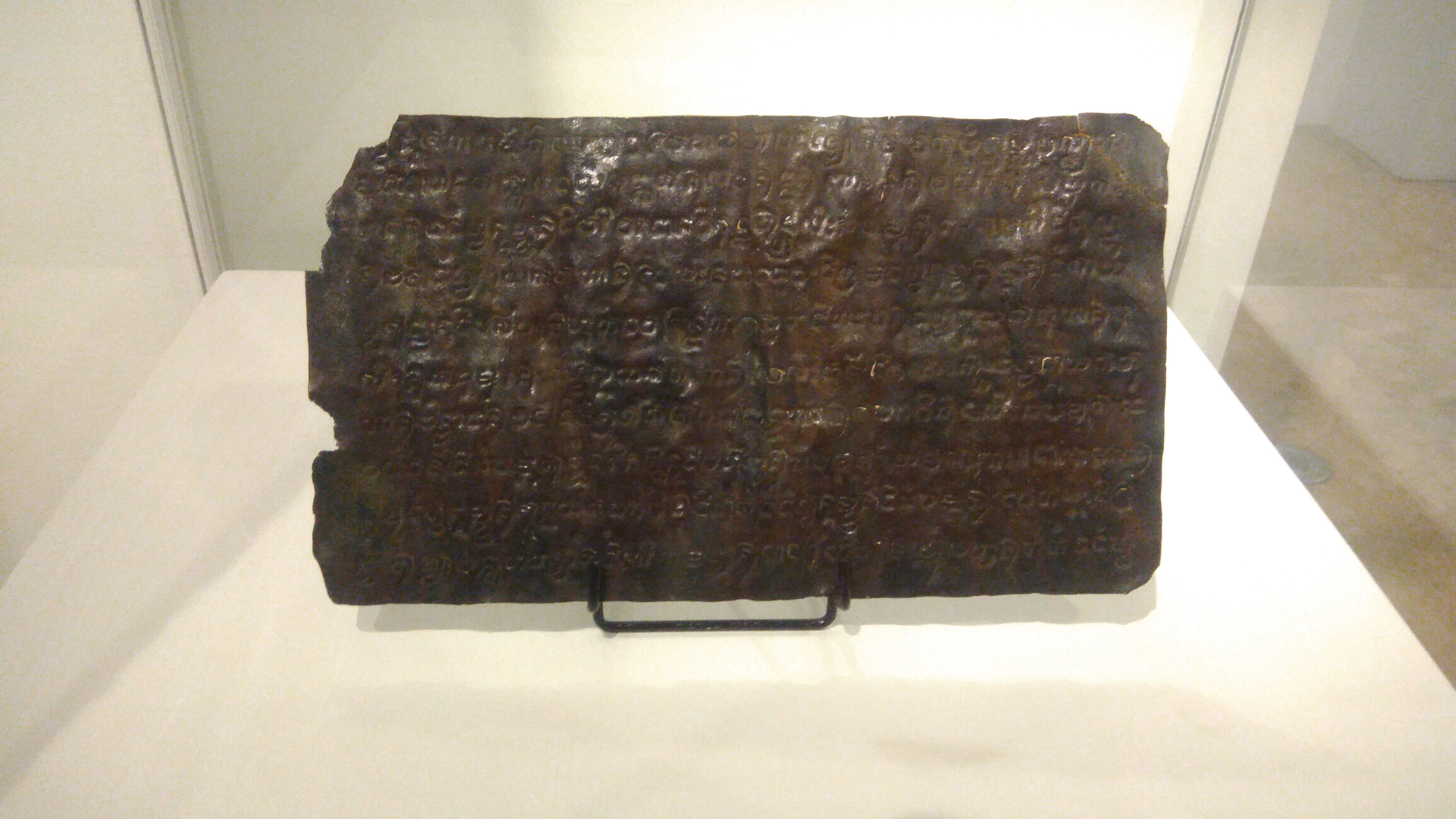 An actual image of the Laguna Copperplate Inscription or LCI. Filipino: Ang aktwal na larawan ng Inskripsyon sa Binatbat na Tanso ng Laguna.